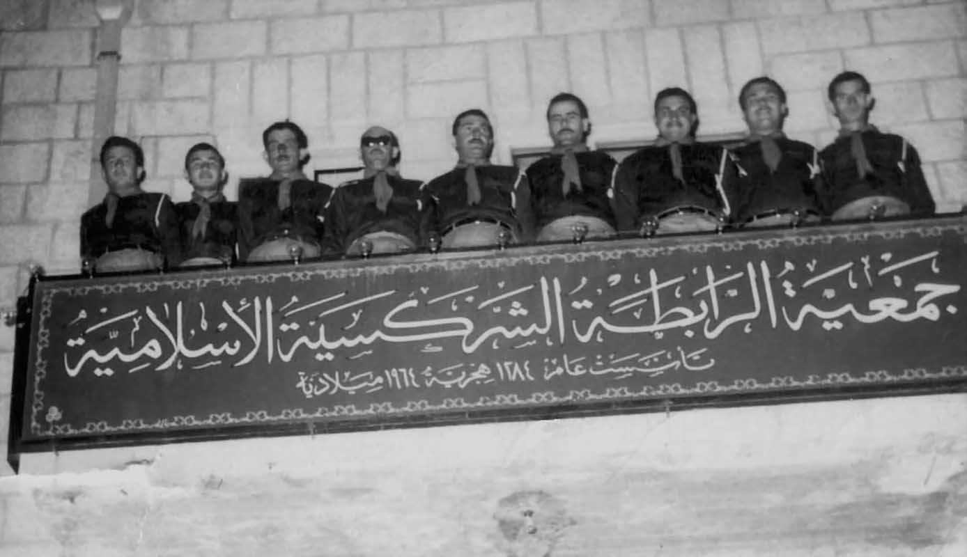 Photo of Adnan Kalimat with his friends and members of Al Rabita.